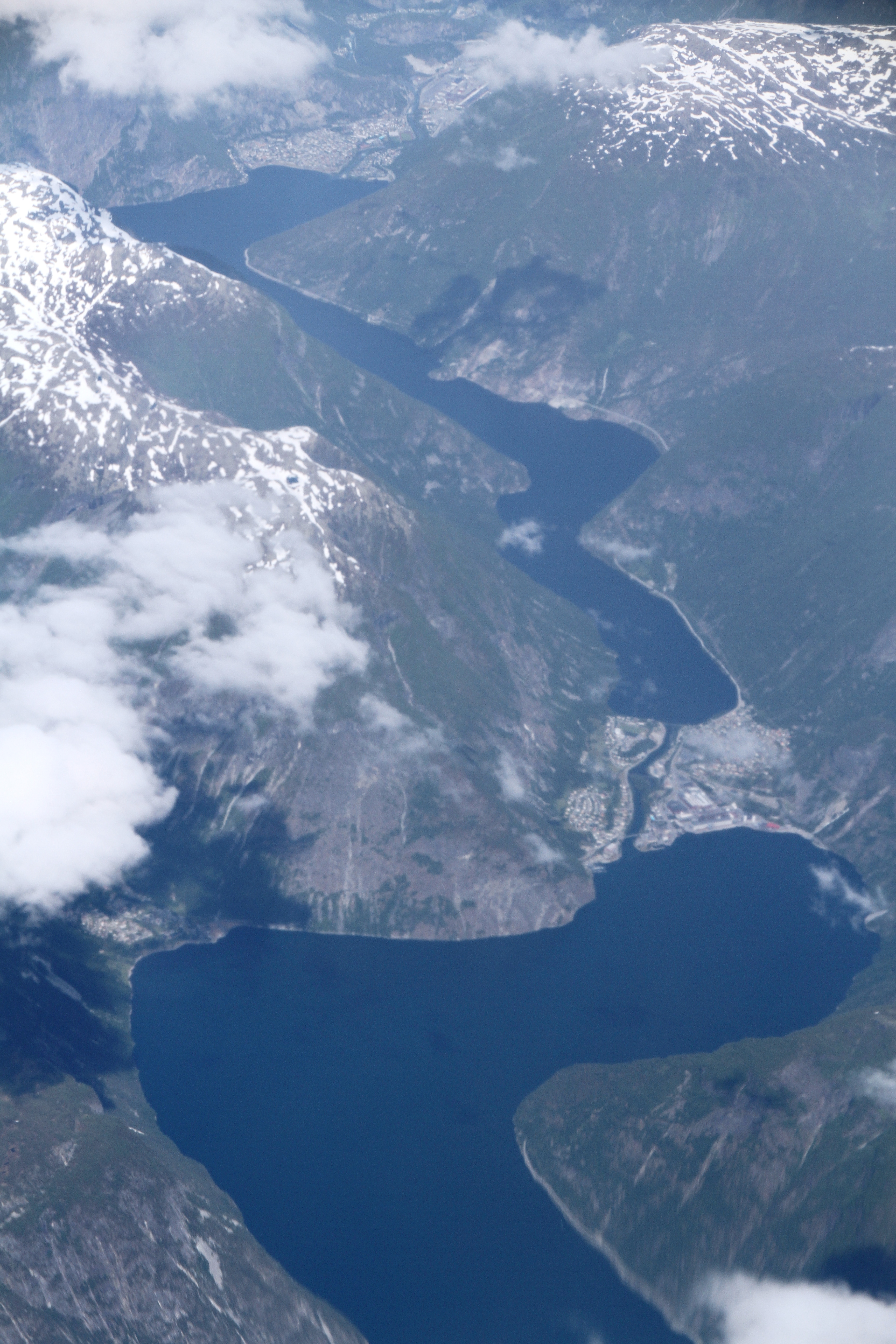 Aerial view of the Norwegian village of Årdalstangen, located between lake Årdalsvatnet (back) and Årdalsfjorden (front) – an inner branch of Sognefjorden; the river Hæreidselvi flows from the lake to the fjord. At the very end of the lake, Øvre Årdal can also be seen. On the left, just below a cloud, the southern end of Seimsdalen is seen.